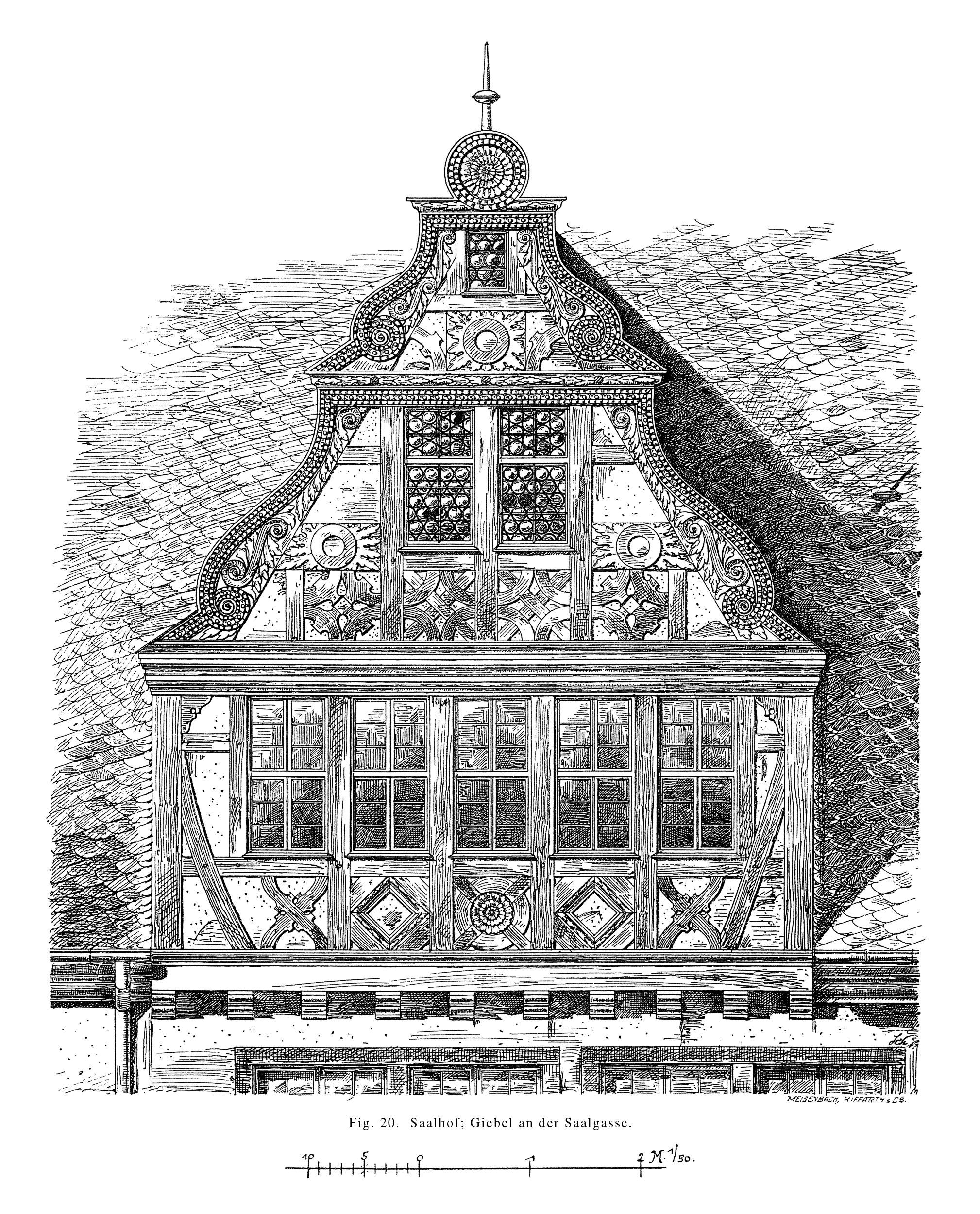 Frankfurt on the Main: Saalhof, gable lucarne built in 1604 atop the wing situated at the Saalgasse (destroyed in 1944)